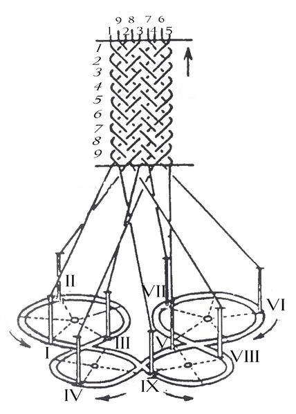 Principle of machine braiding